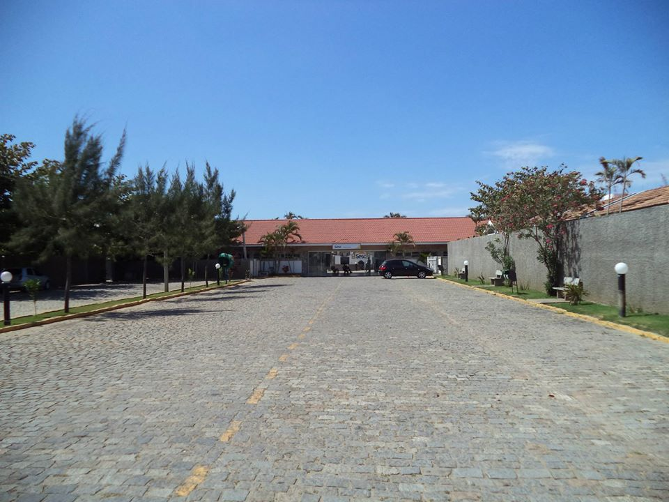 Entrance to the SESC hotel in Grussaí, São João da Barra, Rio de Janeiro, Brazil.